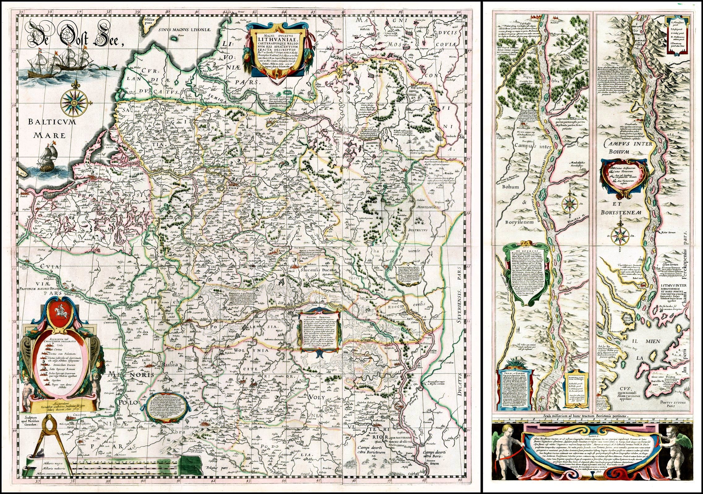 Magni Ducatus Lithuaniae + Borysthenes Fluvius